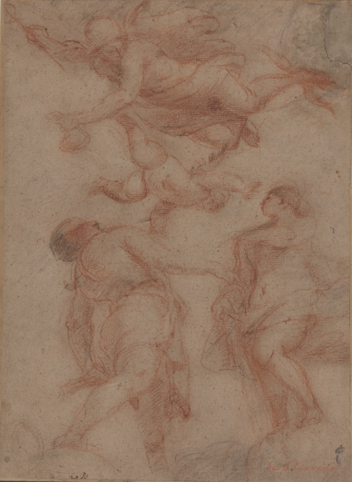 Mercurio, Epimeteo y Pandora o El nacimiento de Pandora, dibujo preparatorio para uno de los recuadros del techo del Salón de los Espejos del Alcázar de Madrid, pintado en 1658 por Carreño y Rizi. Real Academia de Bellas Artes de San Fernando.